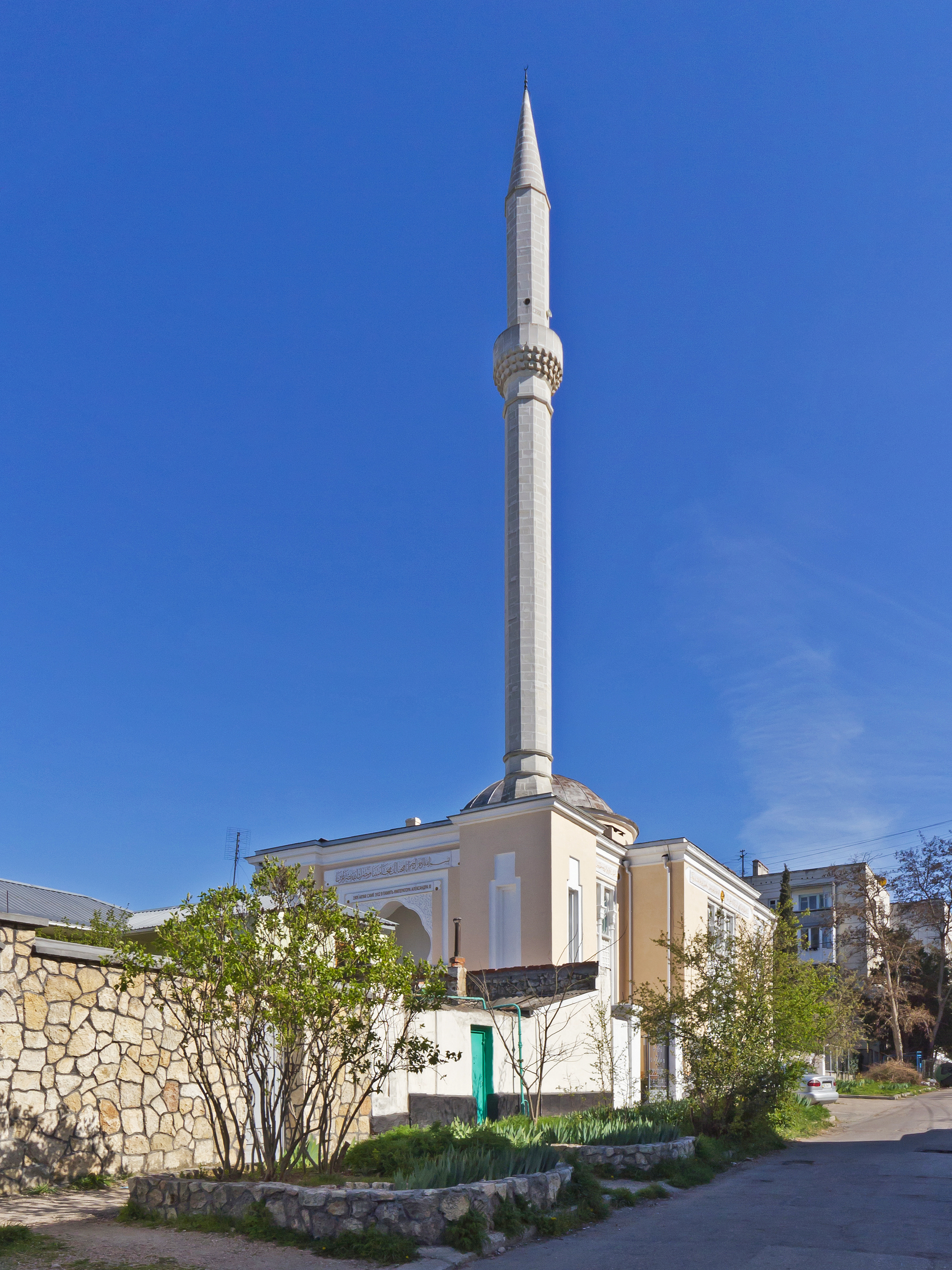 The Aq-Yar Juma Jami Mosque in the Federal City of Sevastopol. Crimean peninsula.